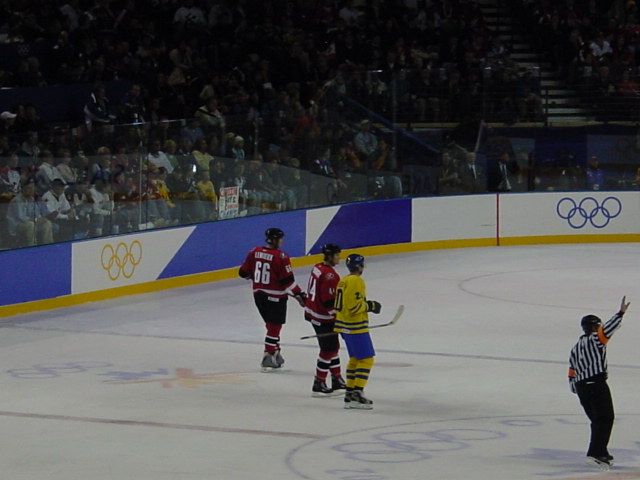 Salt Lake City 2002 Winter Olympics Flashback series featuring adventures of Dave Thorvald and Dan Funboy.